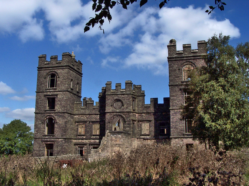 Photo taken by me London UK